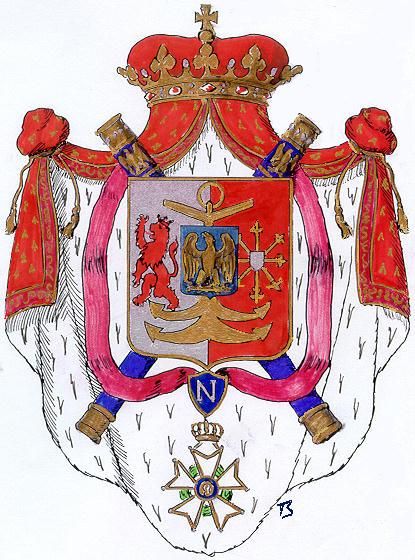 Arms of the Grandduchie of Berg Drawn by Theo van der Zalm